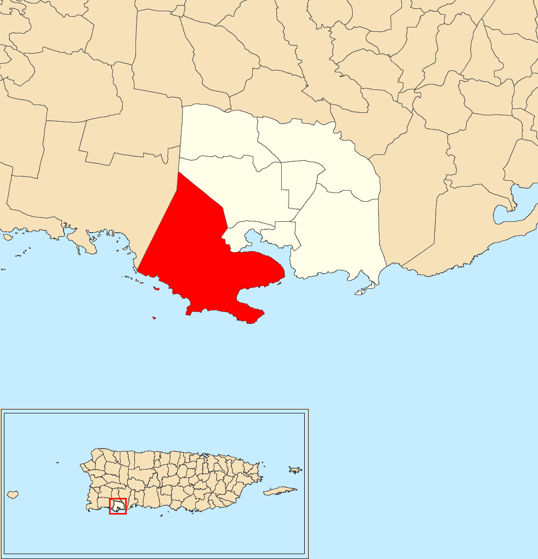 Montalva, Guánica, Puerto Rico locator map